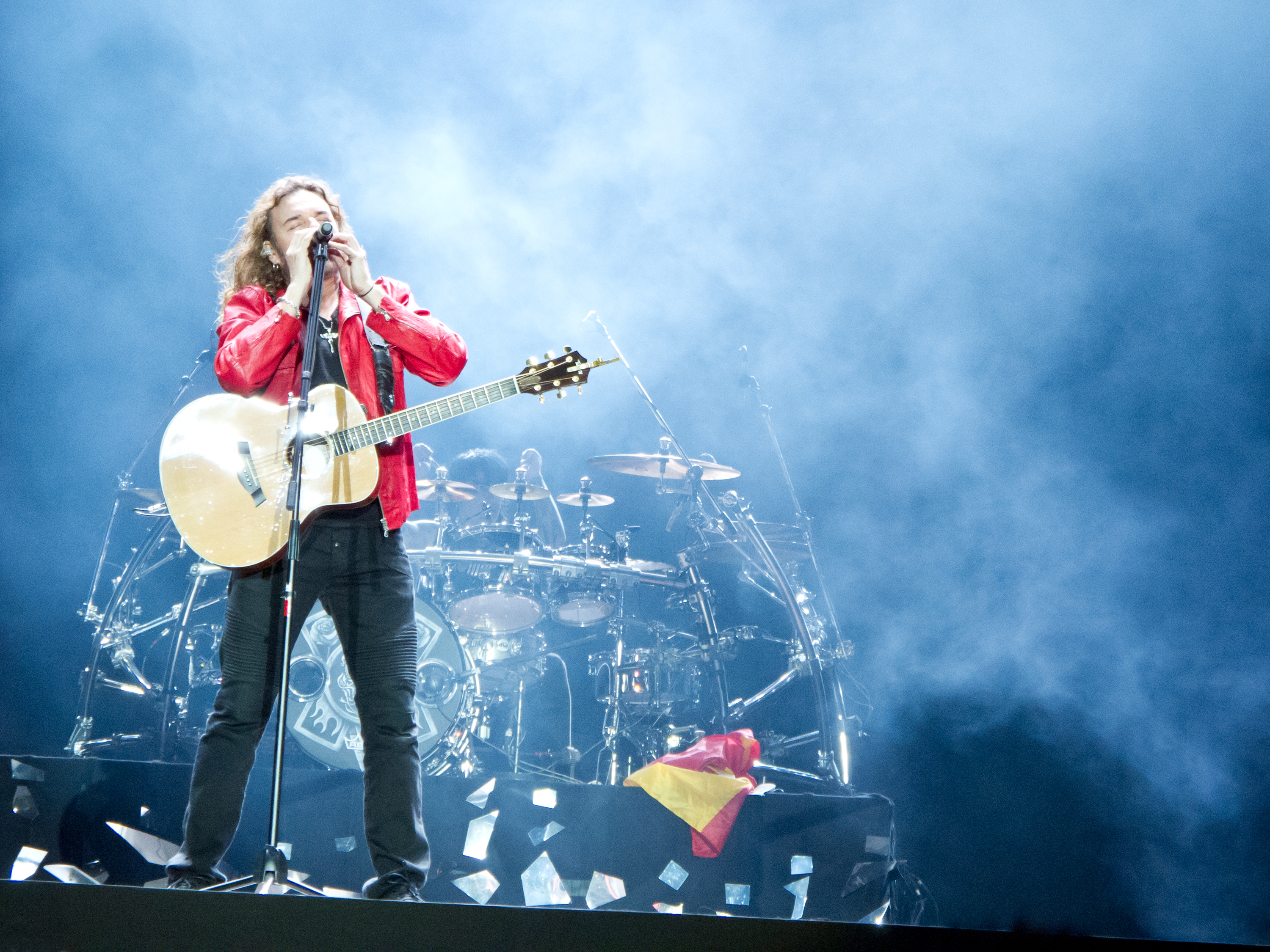 Maná in concert in Rock in Rio in Madrid in 2012.